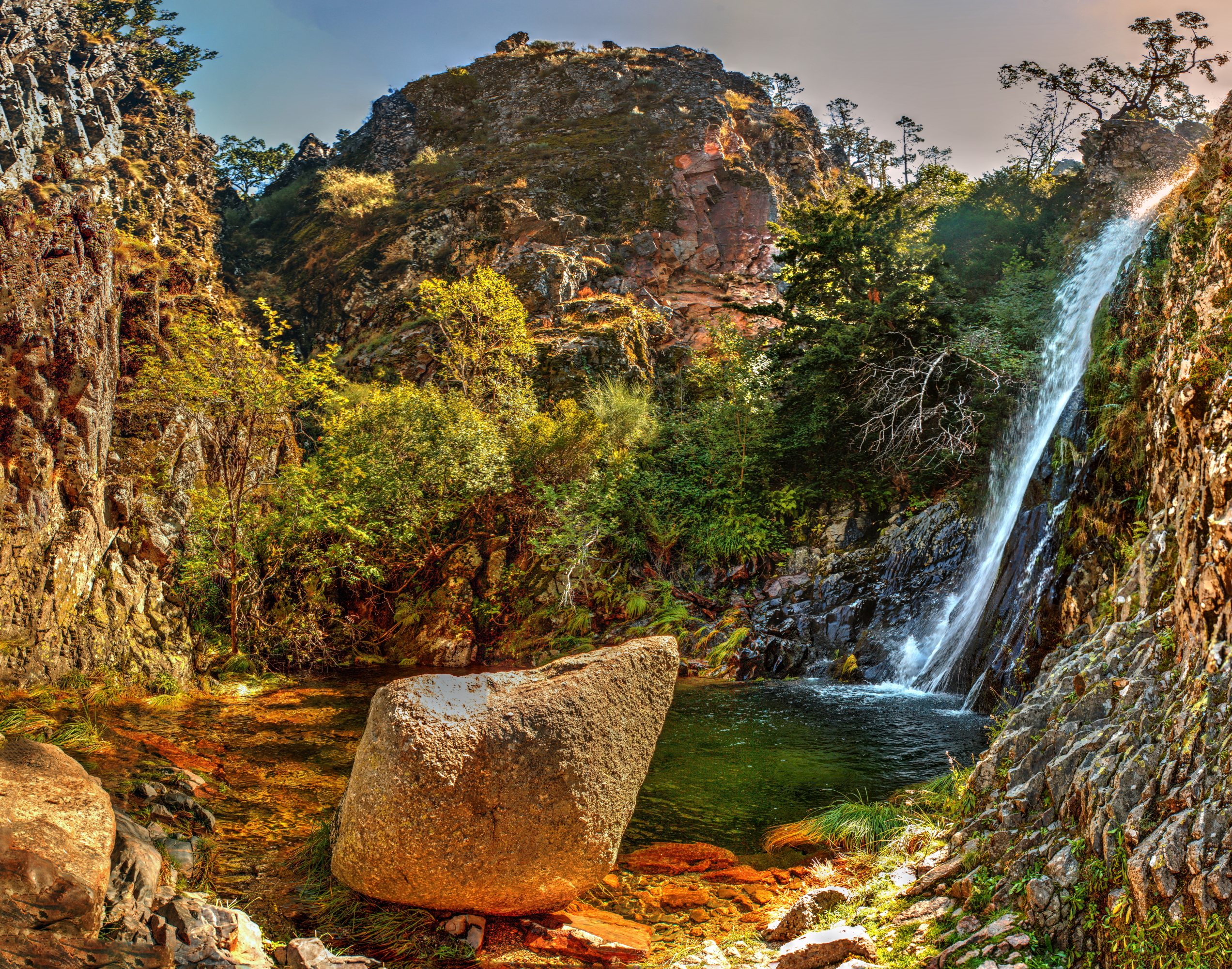 A 10 metre high waterfall in the Ribeira de Leandres, near Manteigas, Portugal This is a photography of a Site of Community Importance in Portugal with the ID: PTCON0014. Natura2000 entry, EEA entry